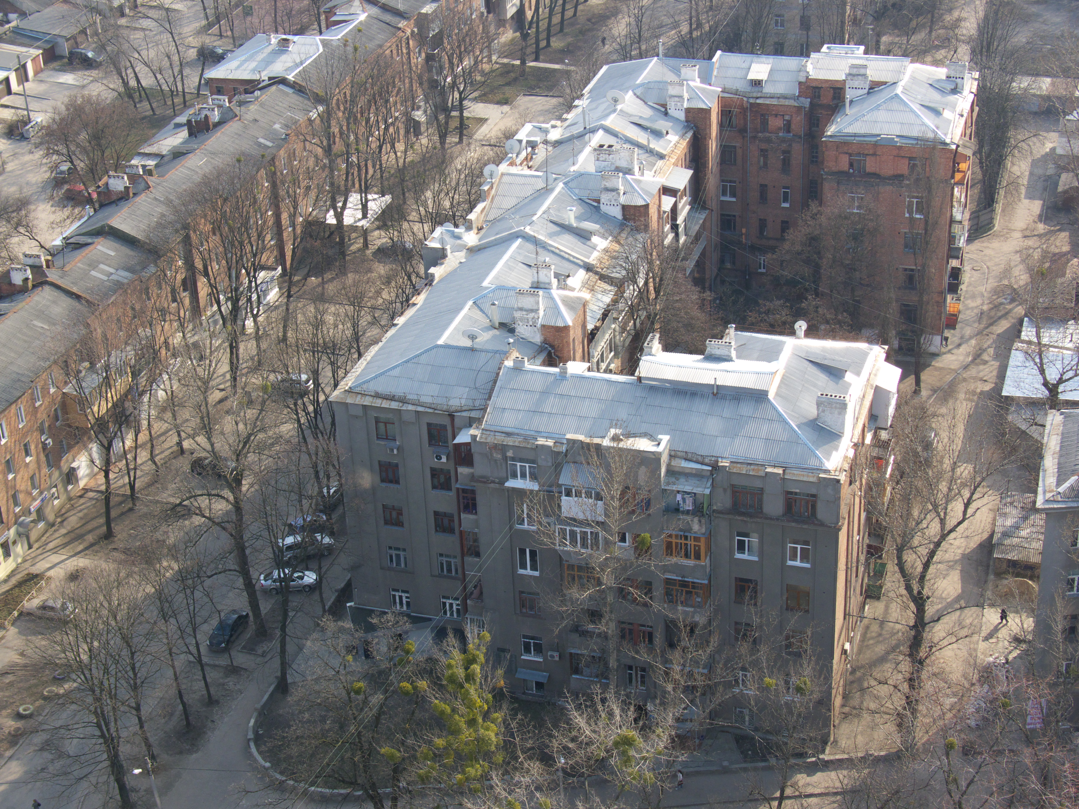 Slovo House ("C" - "слово" - formation) in Kharkov. A tree with a mistletoe (Viscum album) on it can be seen in center front. Original photo - 9,95 mb.